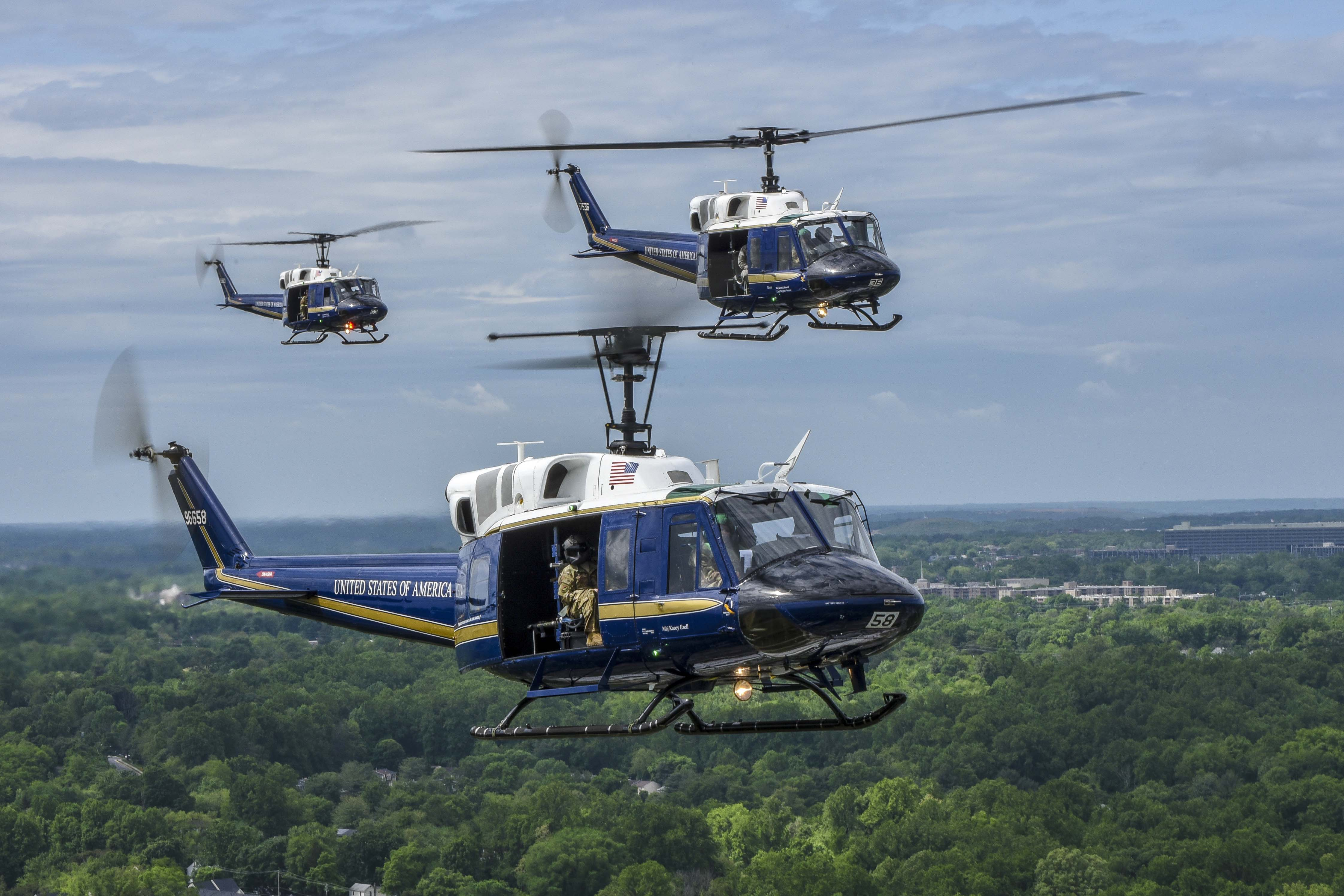 Members of the 1st Helicopter Squadron fly UH-1 Hueys over Washington during opening ceremonies of the Joint Base Andrews Air & Space Expo, May 10, 2019. (U.S. Air Force photo by 2nd Lt. Jessica Cicchetto)